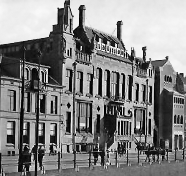 Scan of a 90 year old photo. I retouched some stains. License: public domain.